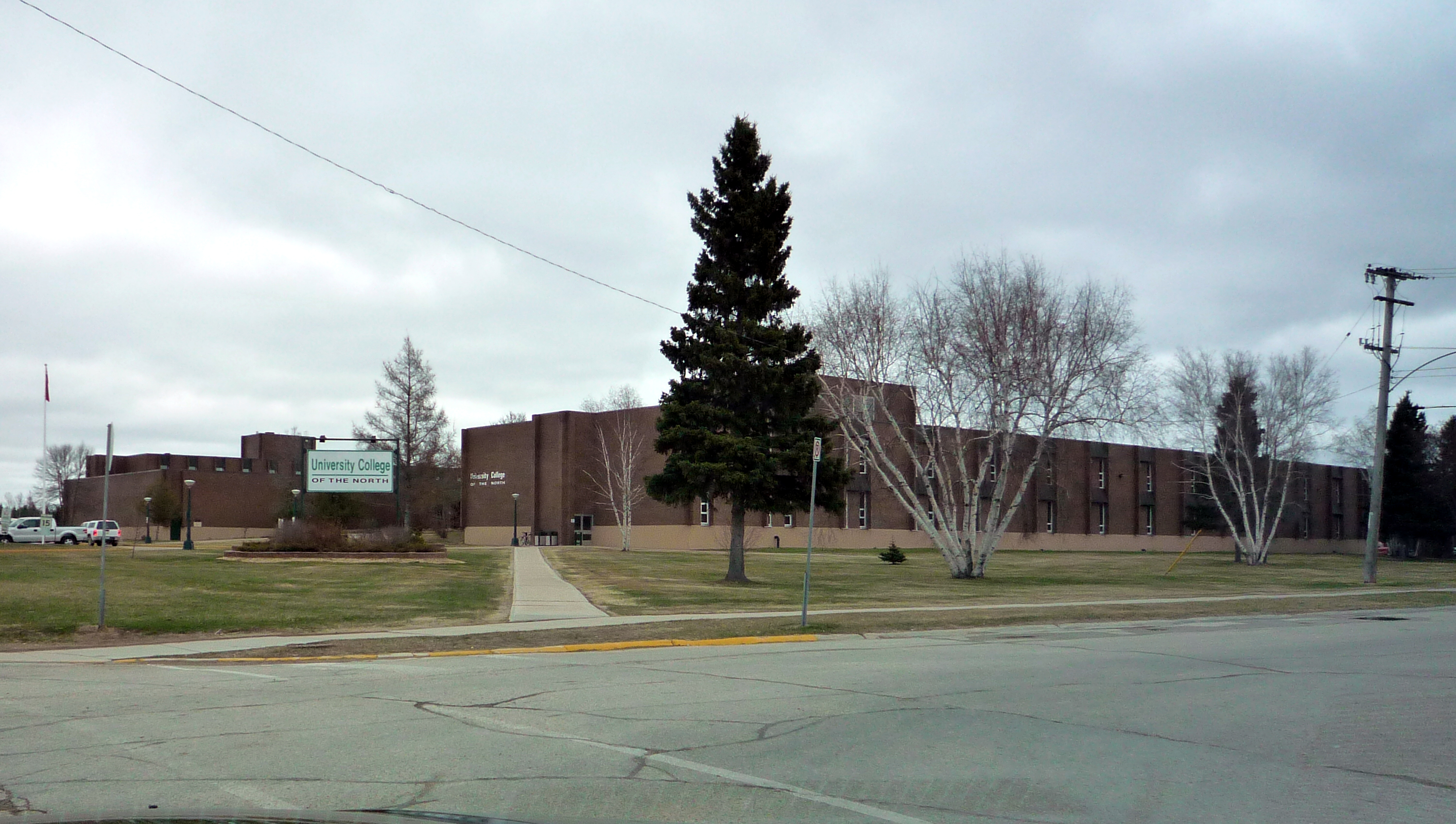 Main campus of the University College of the North in The Pas, Manitoba.